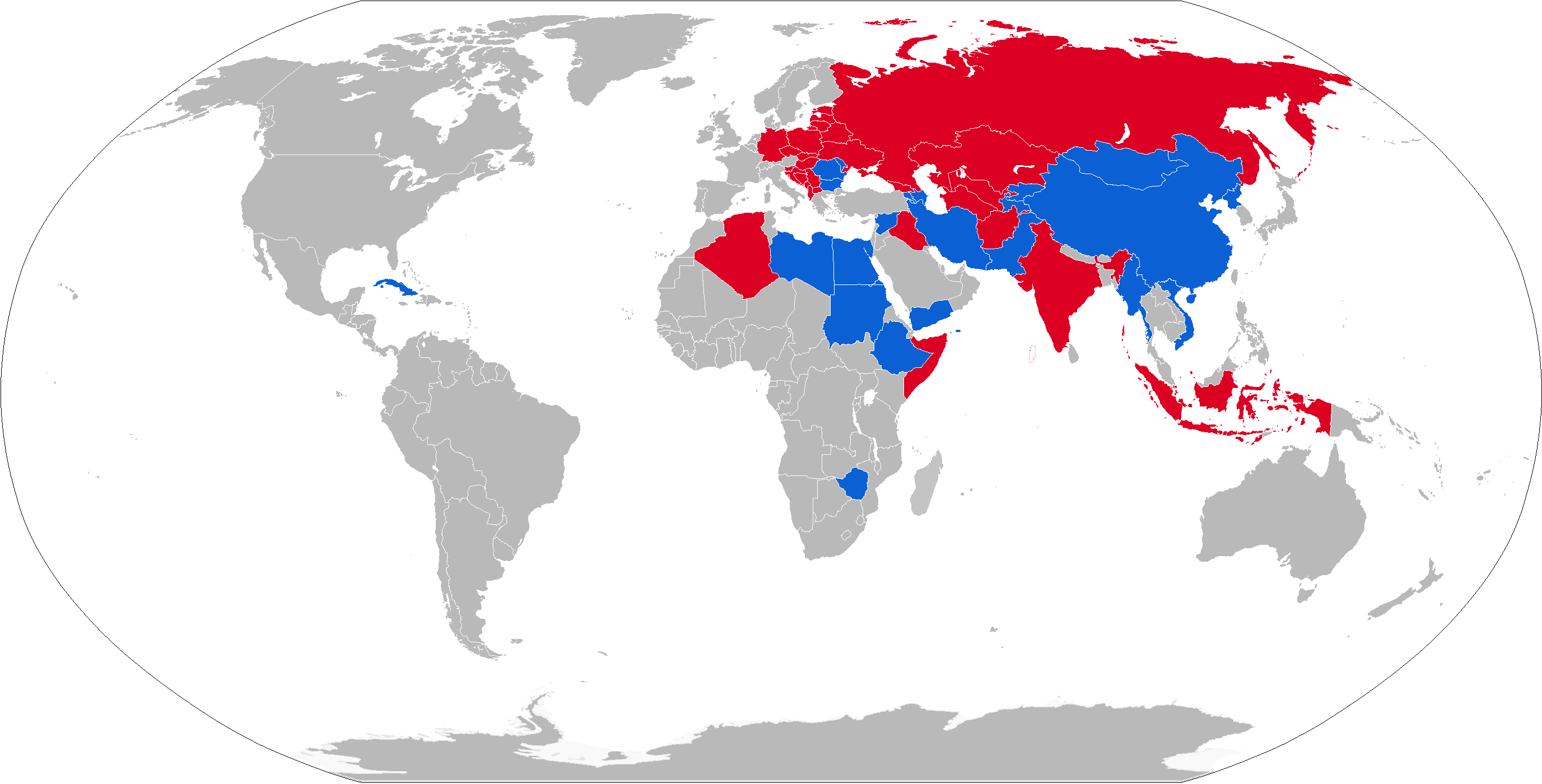 S-75 Operators, including Russia